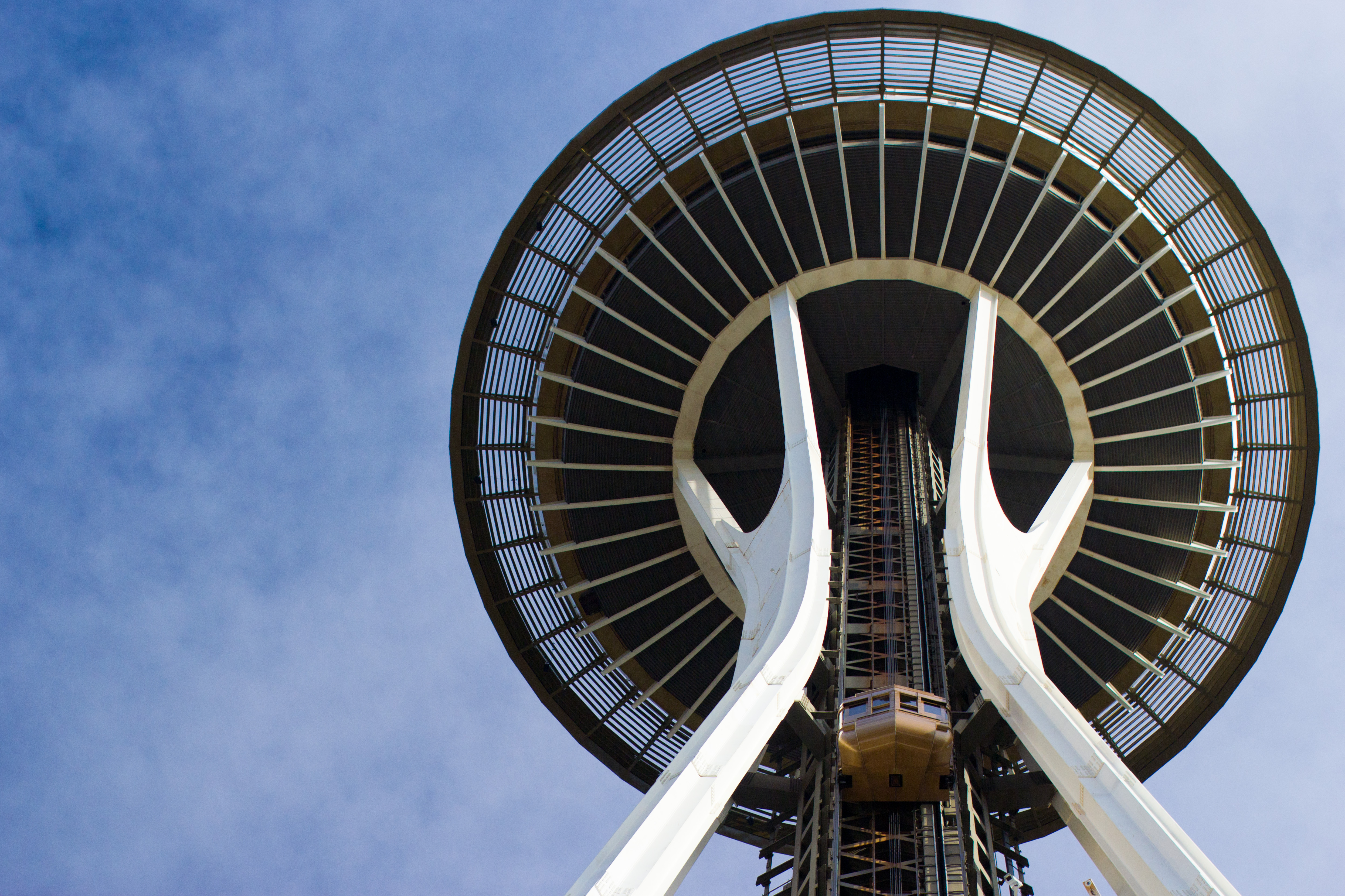 The Space Needle in Seattle Washington, USA as seen from below